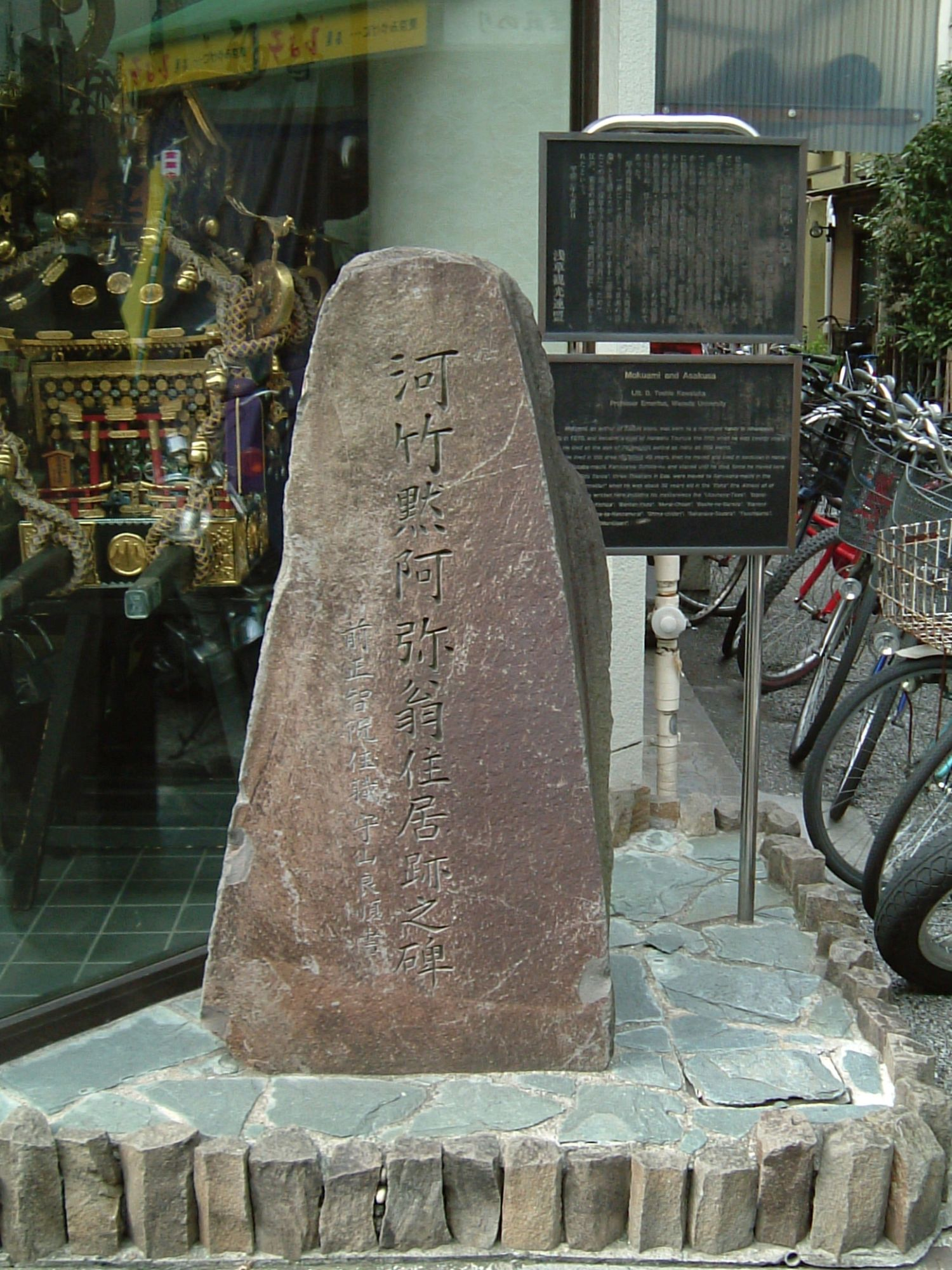 Monument marking the site of Kawatake Mokuami's residence in Asakusa, Tokyo